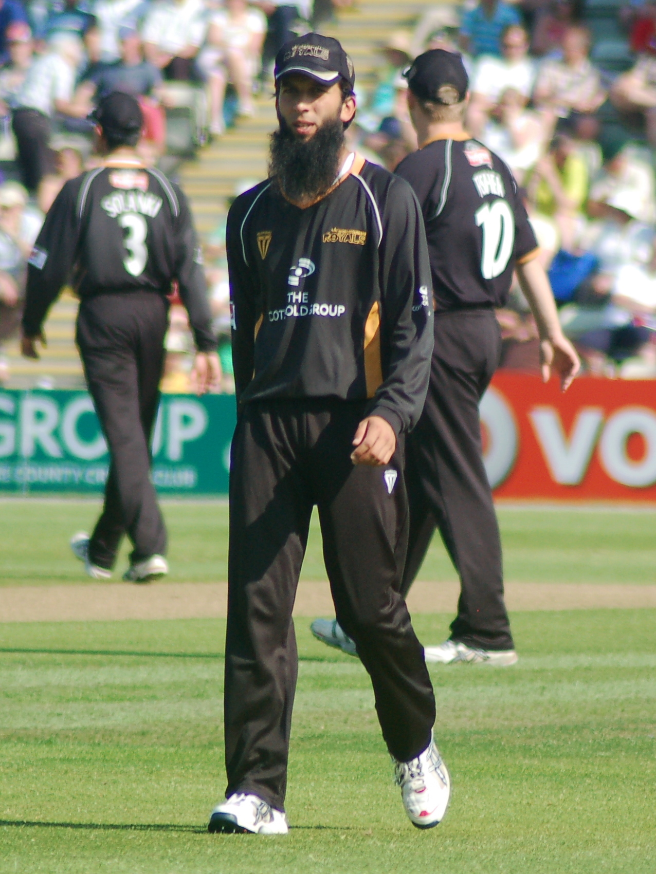 Moeen Ali Worcestershire Royals v Northamptonshire Steelbacks